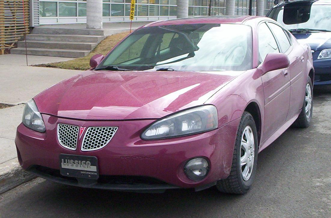 2005-2008 Pontiac Grand Prix GXP photographed in Montreal, Quebec, Canada.